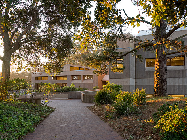 Entry path to SFWS High School campus.